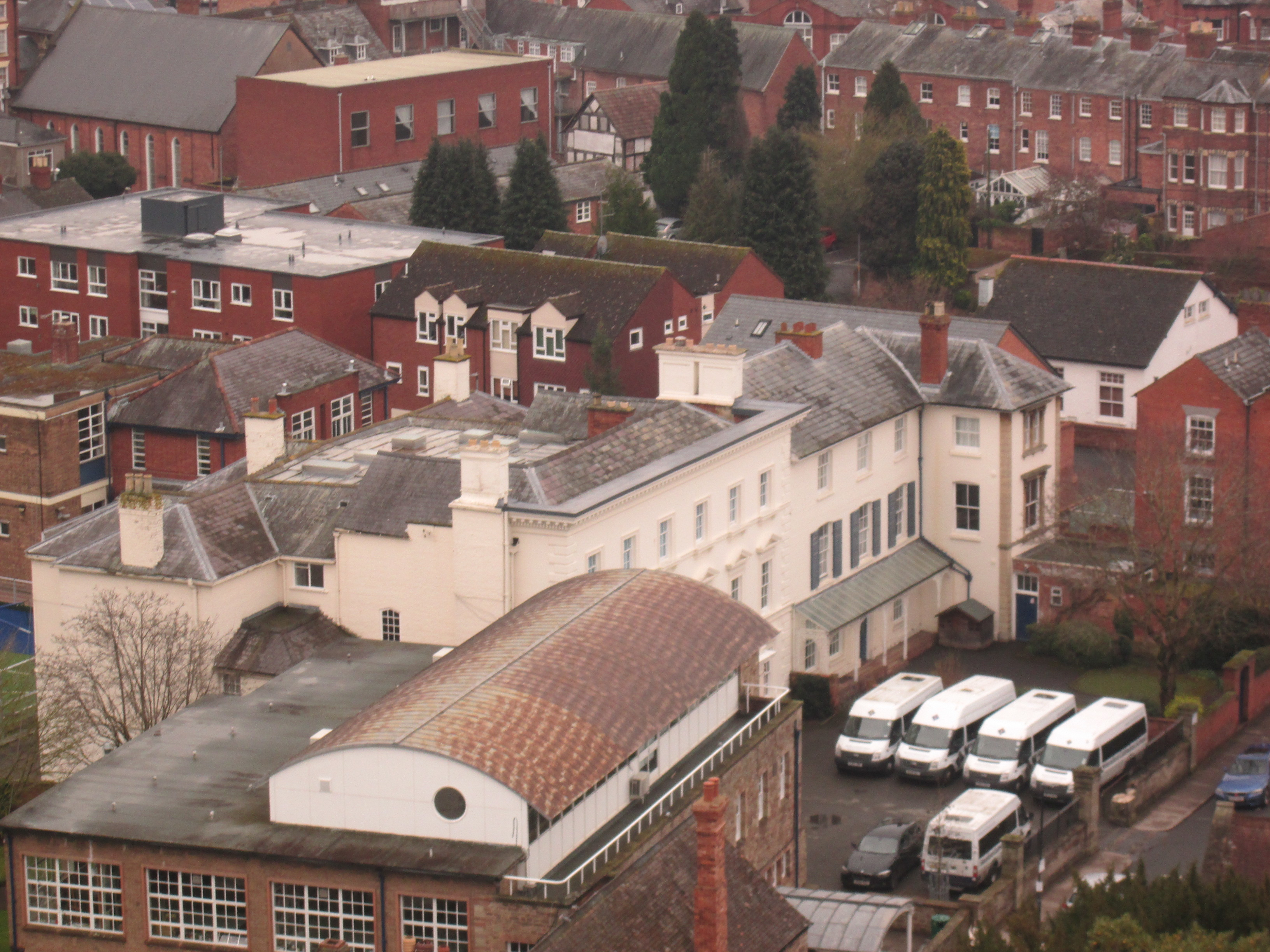 An aerial image of Hereford Cathedral School